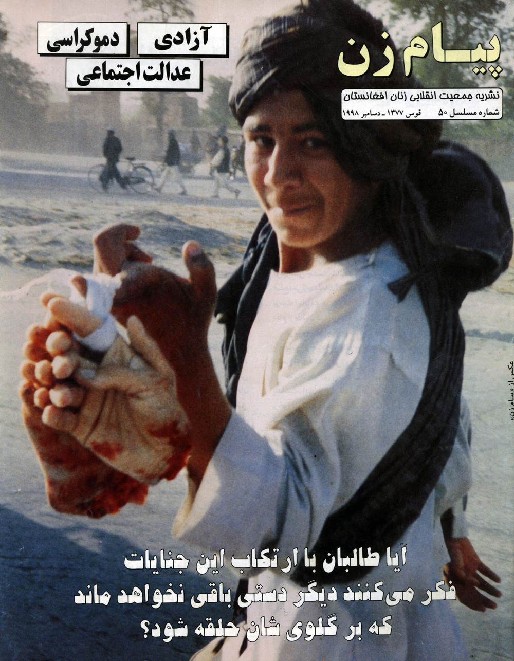 Front cover of Payam-e-Zan (Woman's Message), No. 50, December 1995, a publication of the Revolutionary Association of the Women of Afghanistan (RAWA), published in Persian and Pashtu languages.